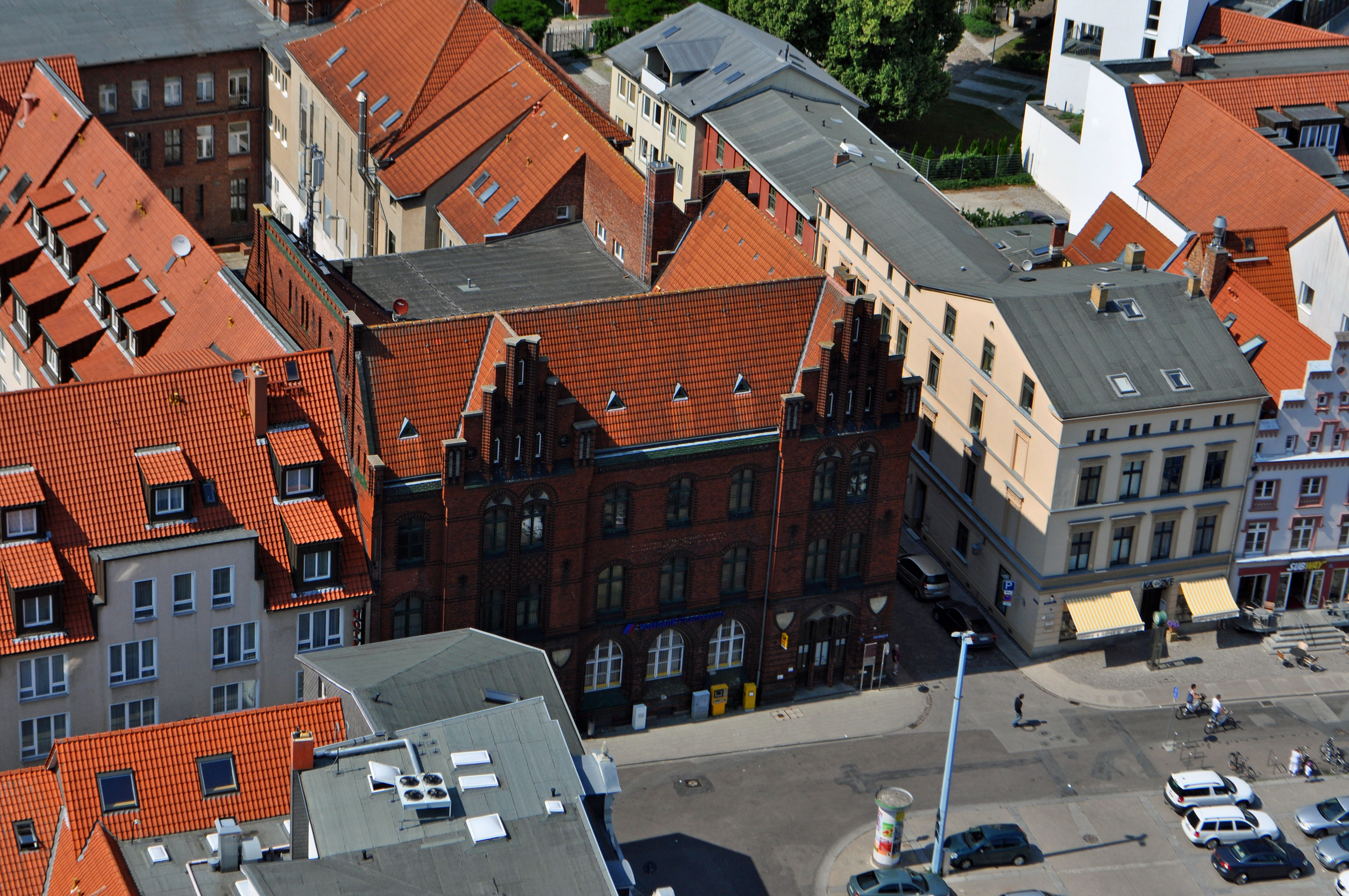 Fotografiert vom Turm der Marienkirche in Stralsund. Neuer Markt (Stralsund). Post. This is a photograph of an architectural monument.